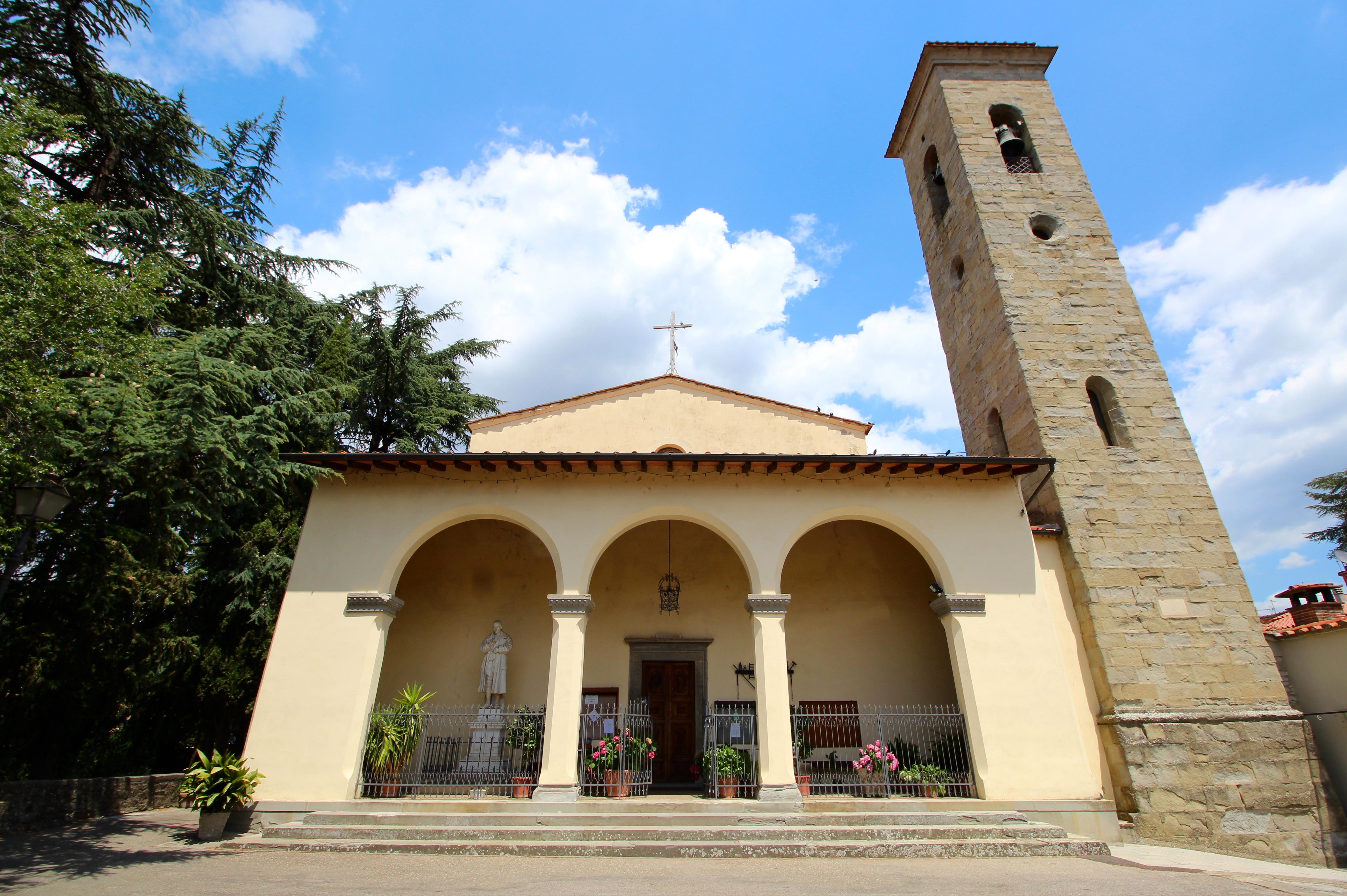 Church Santa Maria della Visitazione, Subbiano, Province of Arezzo, Tuscany, Italy